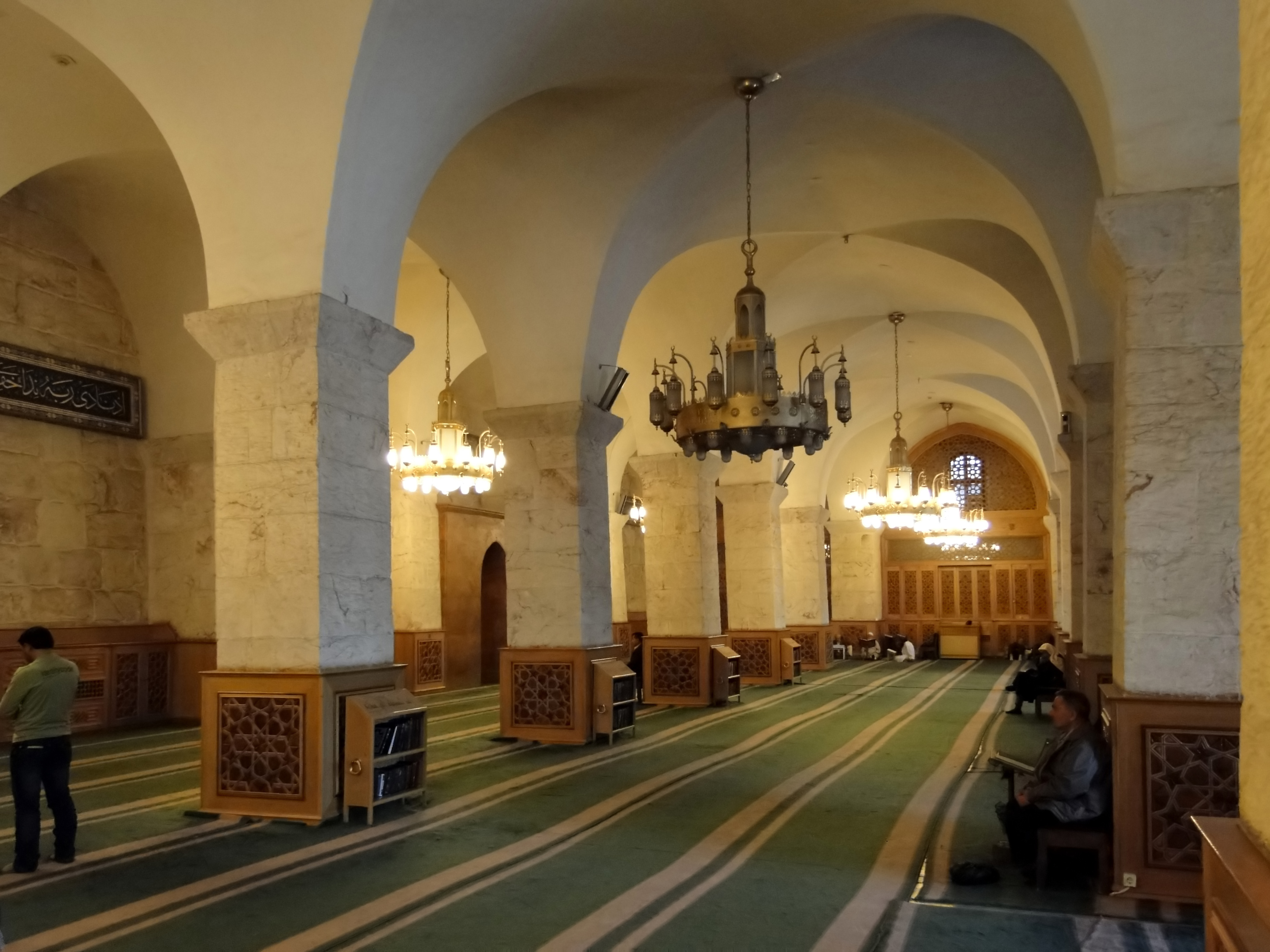 Interior of the Great Mosque of Aleppo, Syria